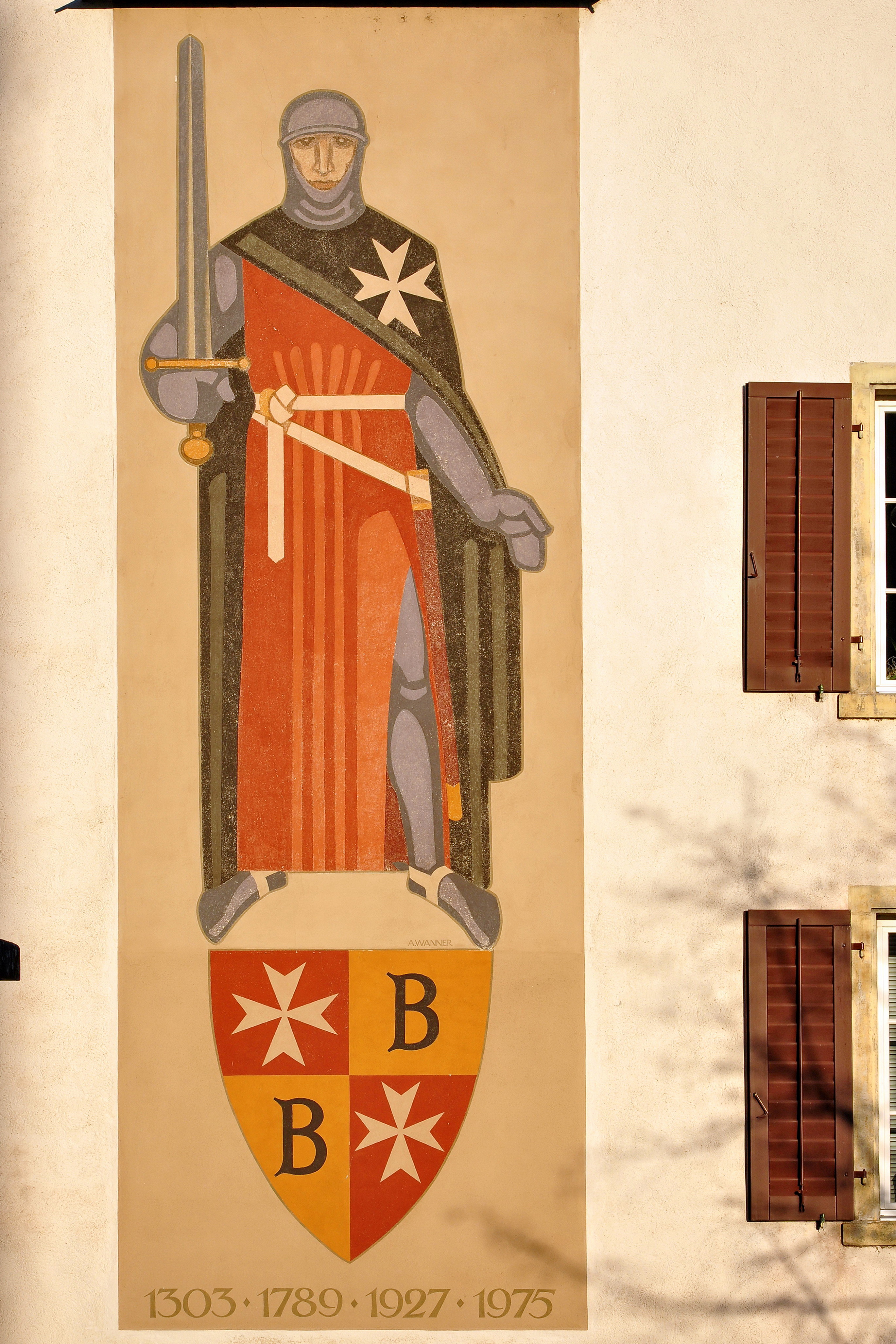 Rapperswil (Switzerland) : Bubikerhaus building, the former Bailiff house of Ritterhaus Bubikon.